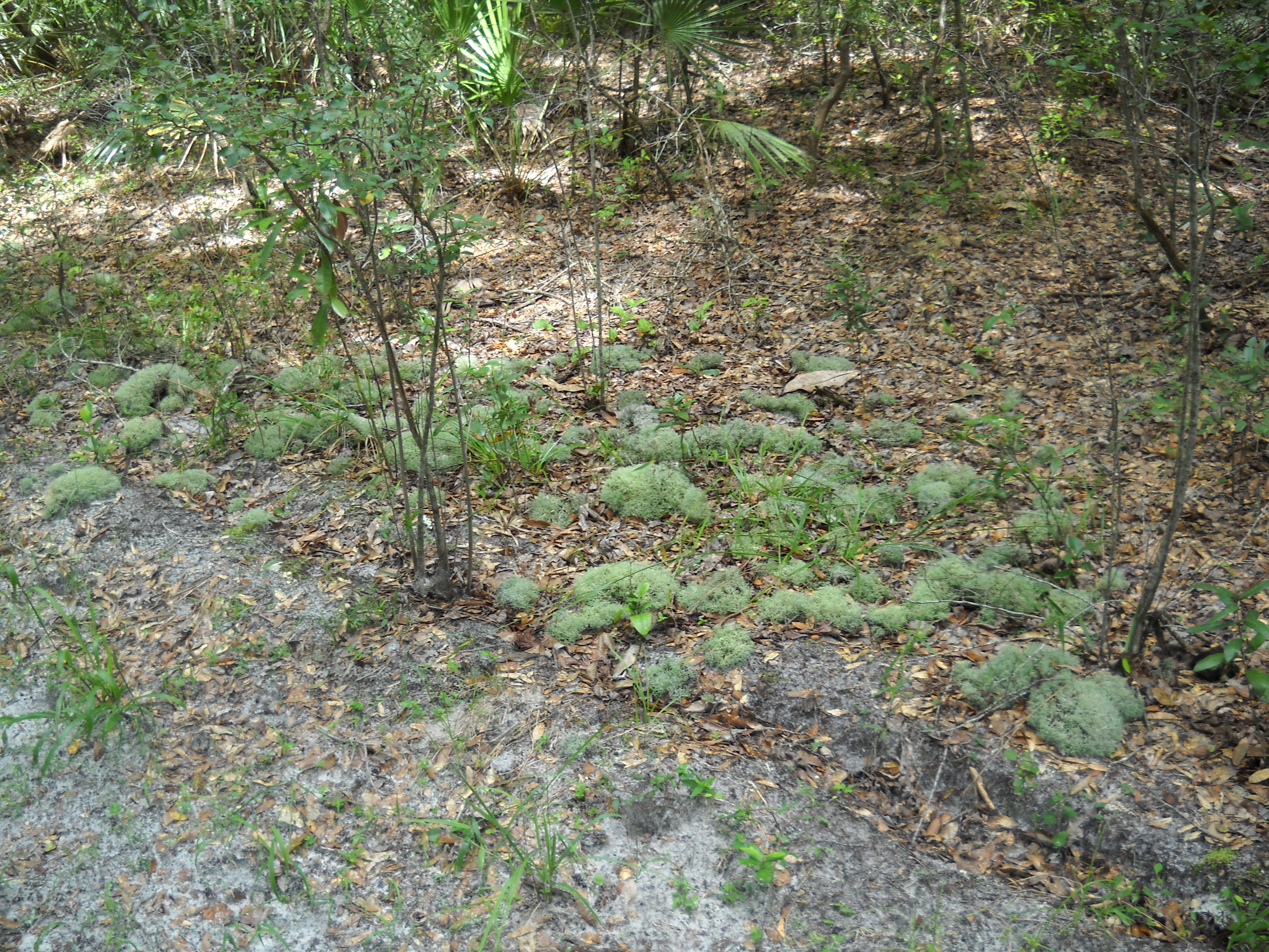 A group of lichen in River-Rise Preserve State Park - Florida State Parks